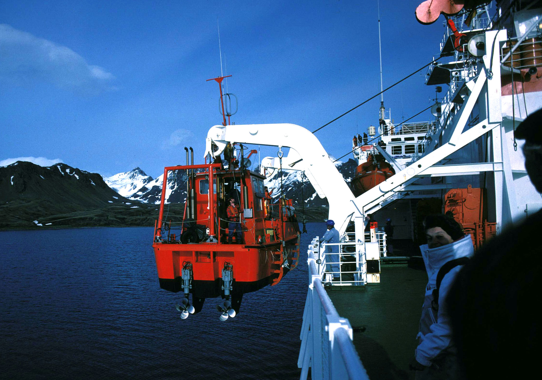 POLARFUCHS - dinghy of the research vessel POLARSTERN - during its deployment in the bay off Grytviken, South Georgia.